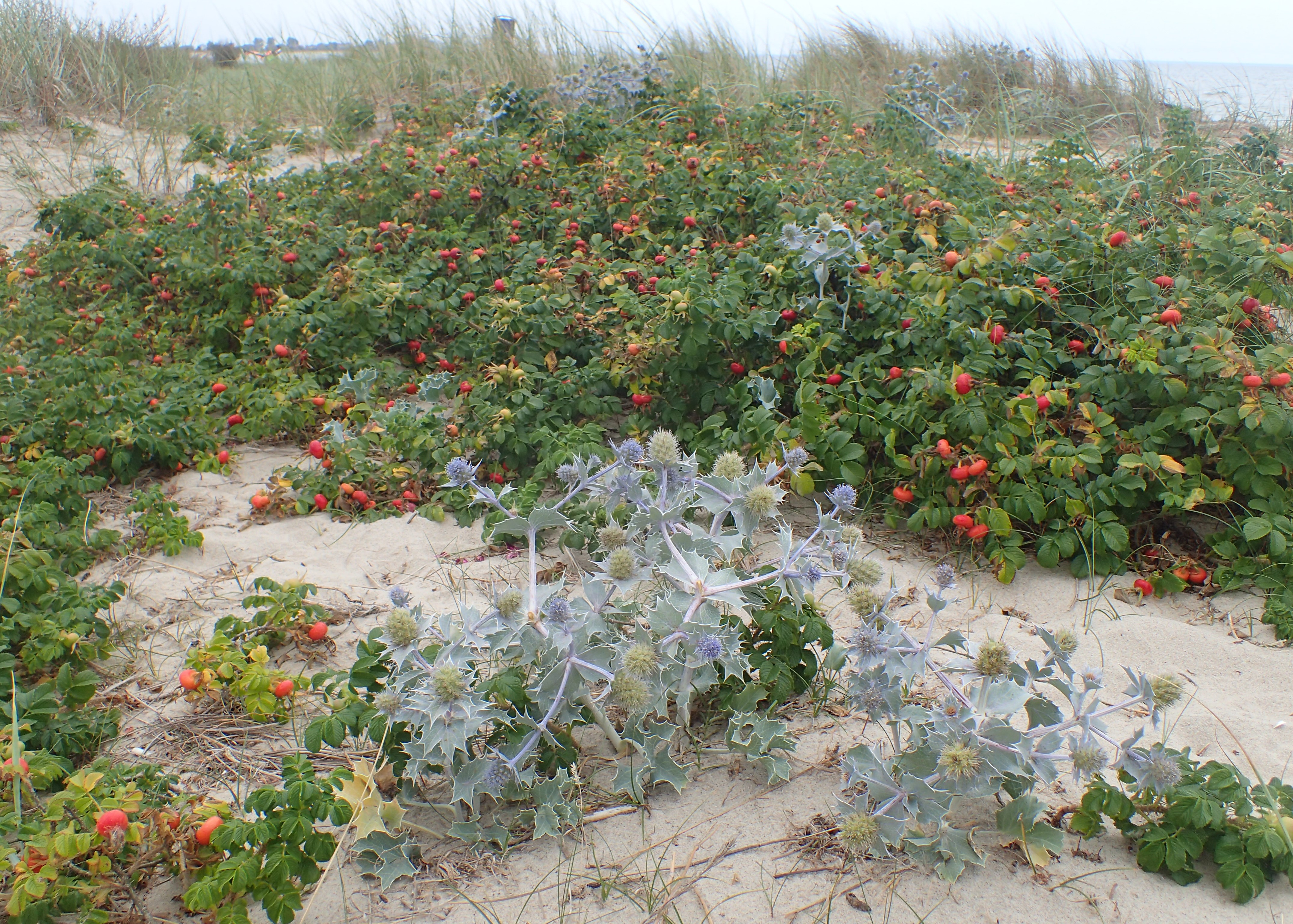 Eryngium maritimum in Mechelińskie Łąki Nature Reserve near Rewa on Baltic See.